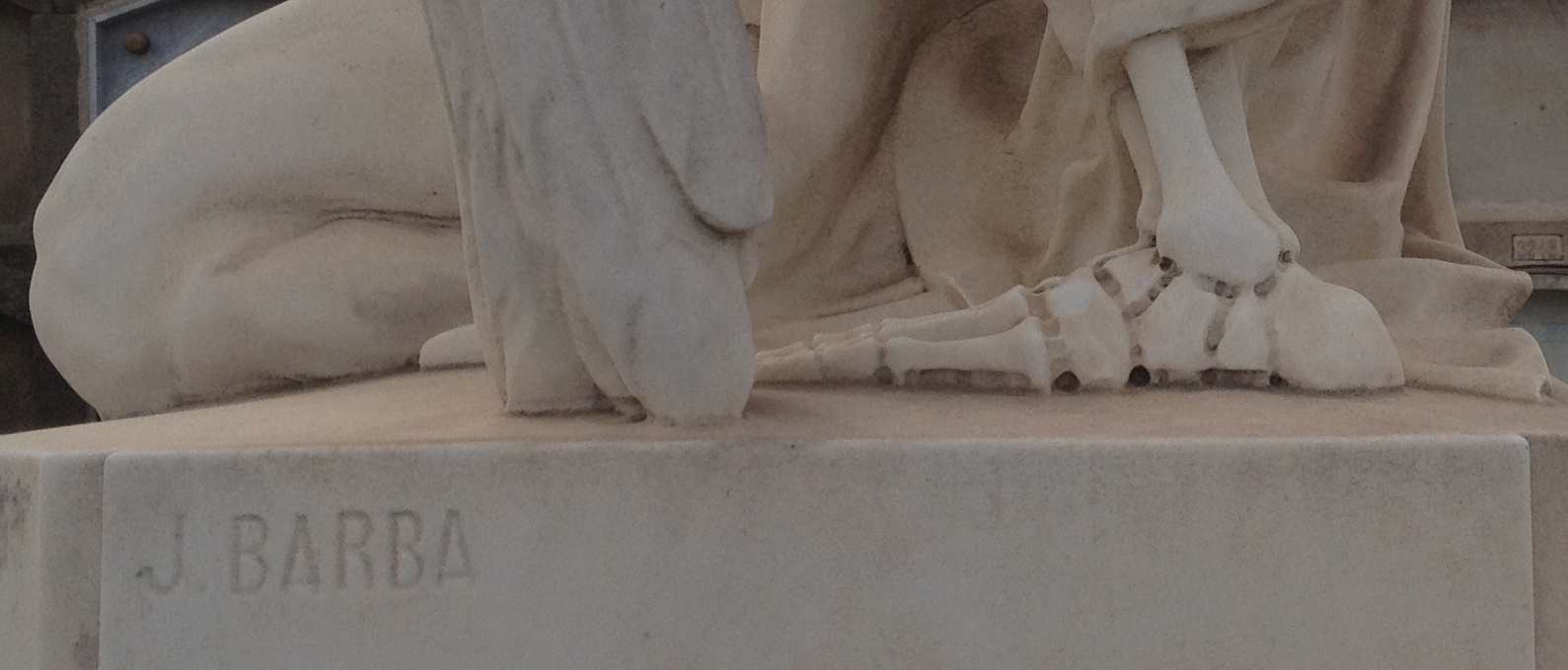 Kiss of Death (Poblenou Cemetery)